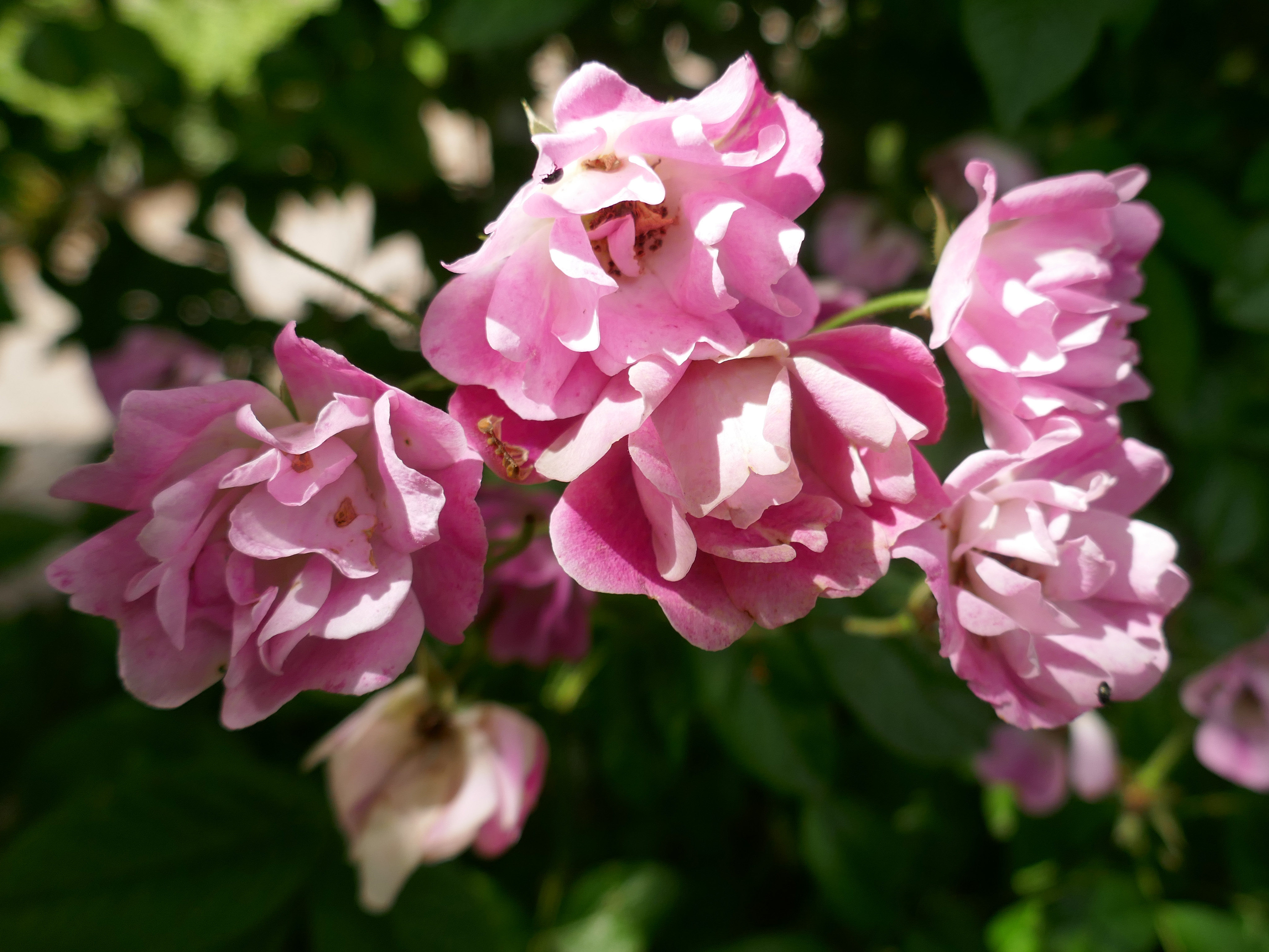 Rosa 'Francis' (Fauque et fils, 1908) flowering in the spa garden of Bad Wörishofen (Germany)